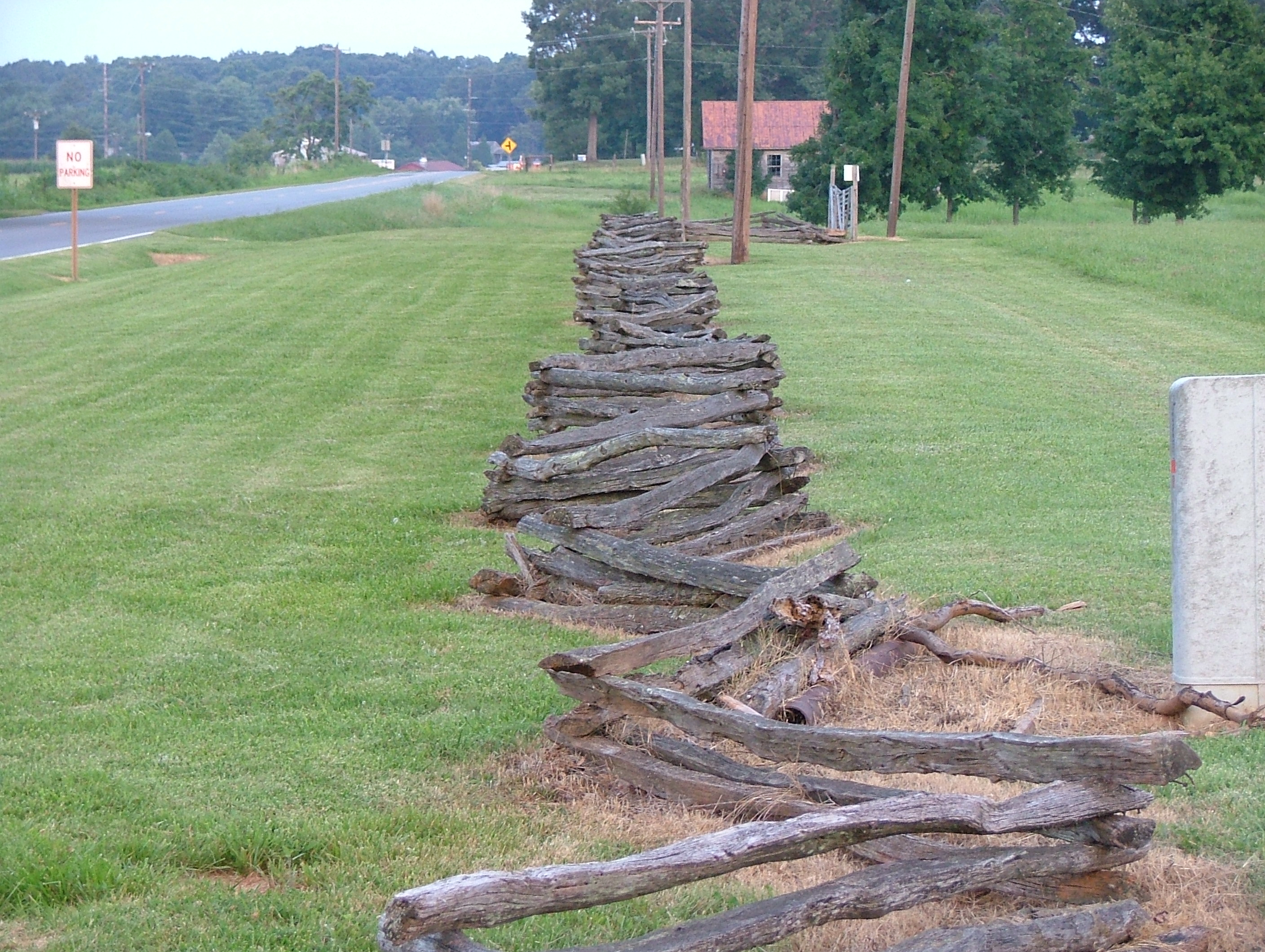 Traditionel fences in Union Grove, Iredell County, North Carolina